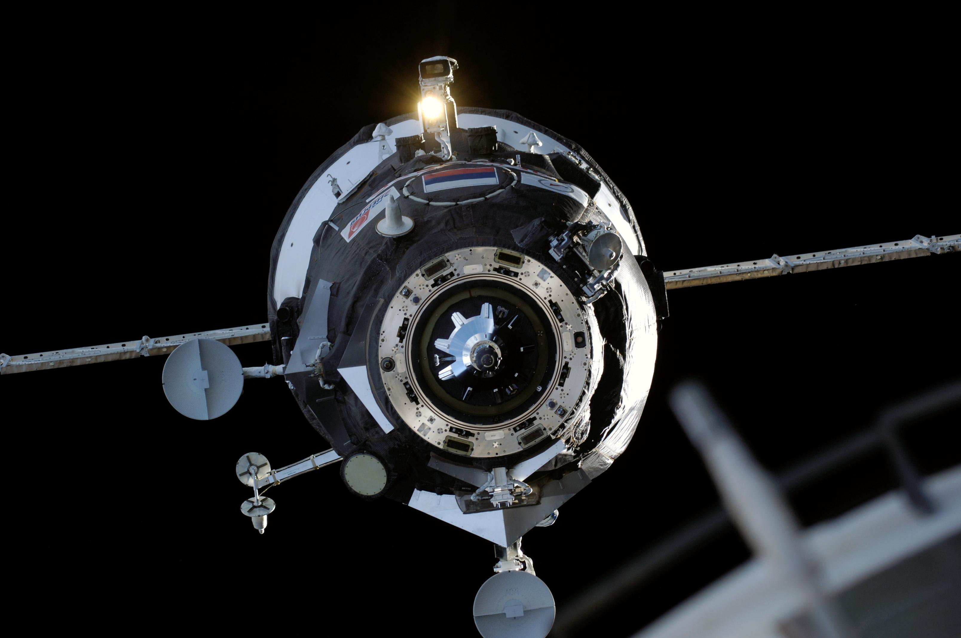 Progress M-60 seen from the International Space Station during docking. Backdropped by the blackness of space, an unpiloted Progress supply vehicle approaches the International Space Station. The Progress 25 resupply craft launched at 10:25 p.m. (CDT) on May 11, 2007 from the Cosmodrome in Kazakhstan to deliver more than 2.5 tons of food, fuel, oxygen and other supplies to the Expedition 15 crewmembers onboard the station. Progress automatically docked to the aft port of the Zvezda Service Module at 12:10 a.m. (CDT) on May 15 as the spacecraft and the station flew approximately 208 miles above a point of the Earth off the northeast coast of Australia.